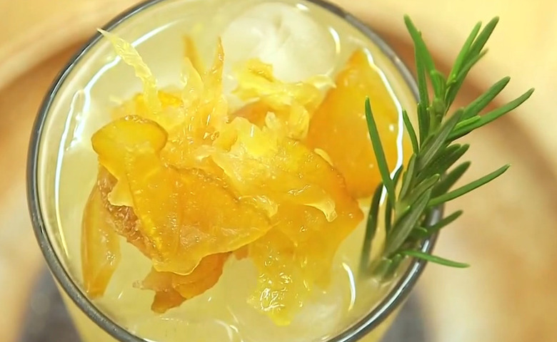 danyuja-ade (dangyuja beverage)